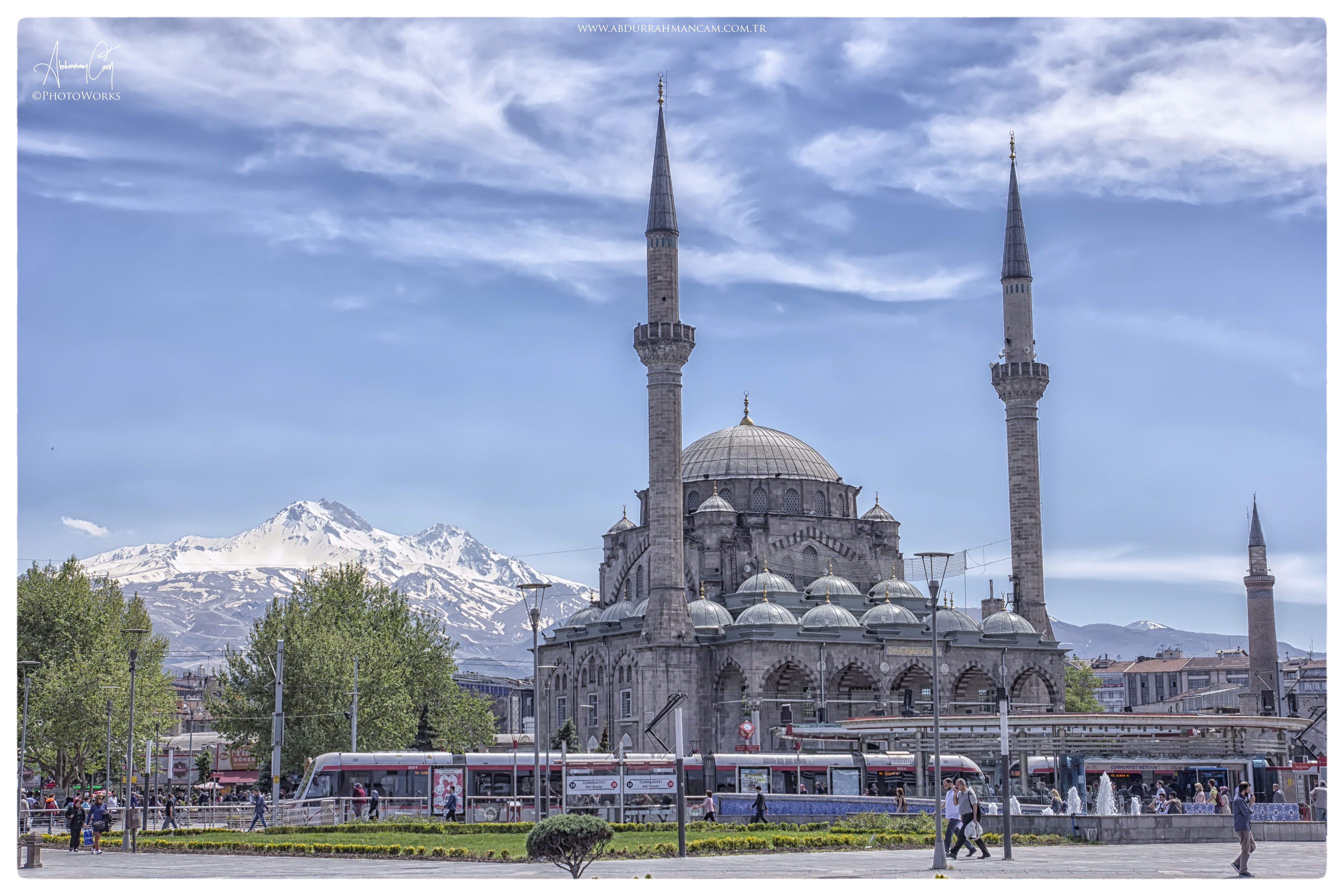 It is a mosque located in Kayseri Cumhuriyet Square between Kayseri Castle and the Grand Bazaar. It was built in the place of a two-door masjid that was demolished before.